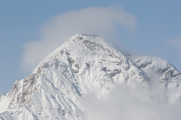 South-east face of Monte Chaberton in winter